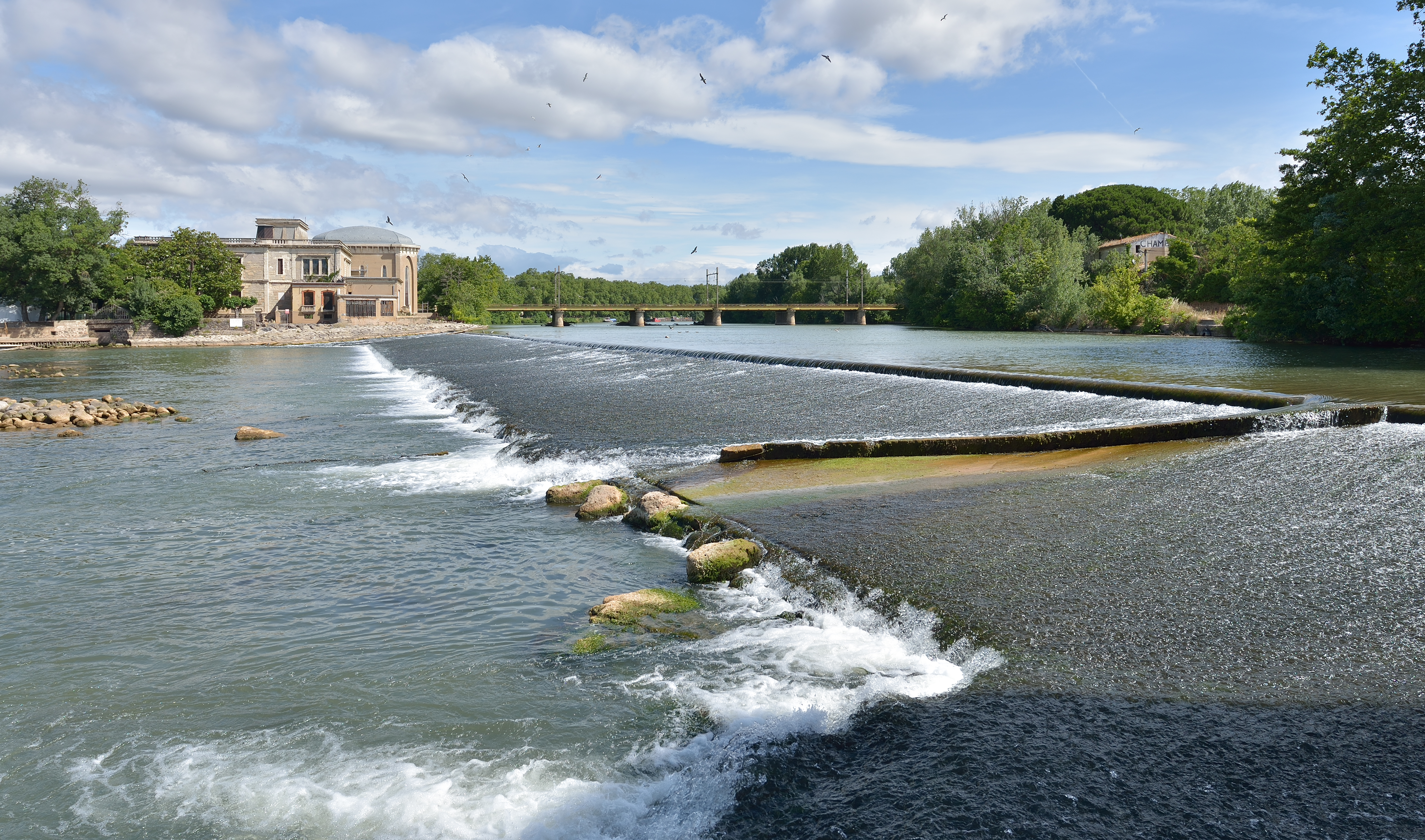 On the left the Château Laurens (neoclassical house built between 1898 and 1900), in the background the bridge of the railroad, and in the foreground the Hérault River and a work for its change of level. Agde, Hérault, France. .